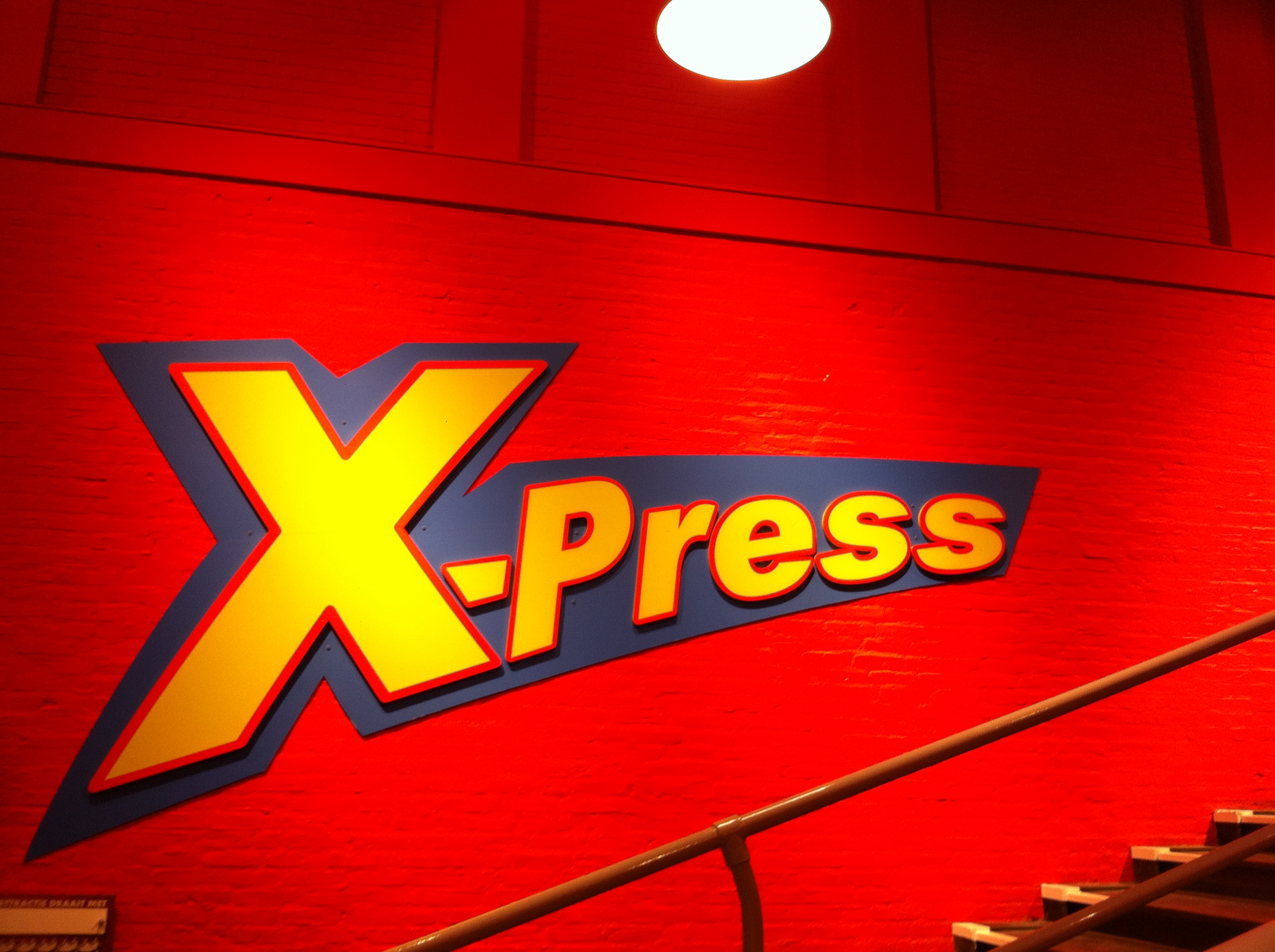 New Xpress logo at Walibi Holland